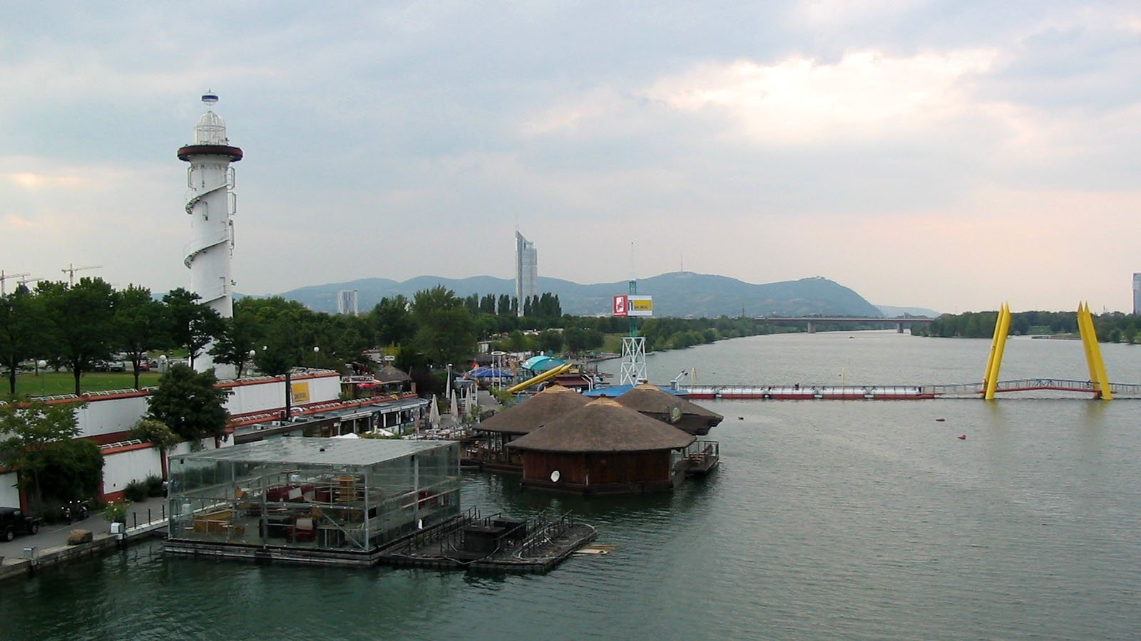 "Sunken City", with lighthouse and pontoon bridge, view of New Danube's right (Southwest) bank, from SE, from Reichsbrücke. In the background: Millenium Tower, Kahlenberg (w. antenna), Leopoldsberg (w. church) and, far out, Klosterneuburg.